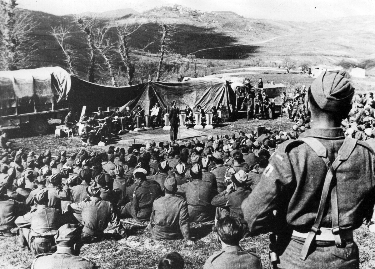 Eng.: Popular song "Red flowers at Monte Cassino" first time performed to Polish soldiers in Italy.Pl.: Prawykonanie pieśni "Czerwone Maki na Monte Cassino" w maju 1944 we Włoszech.